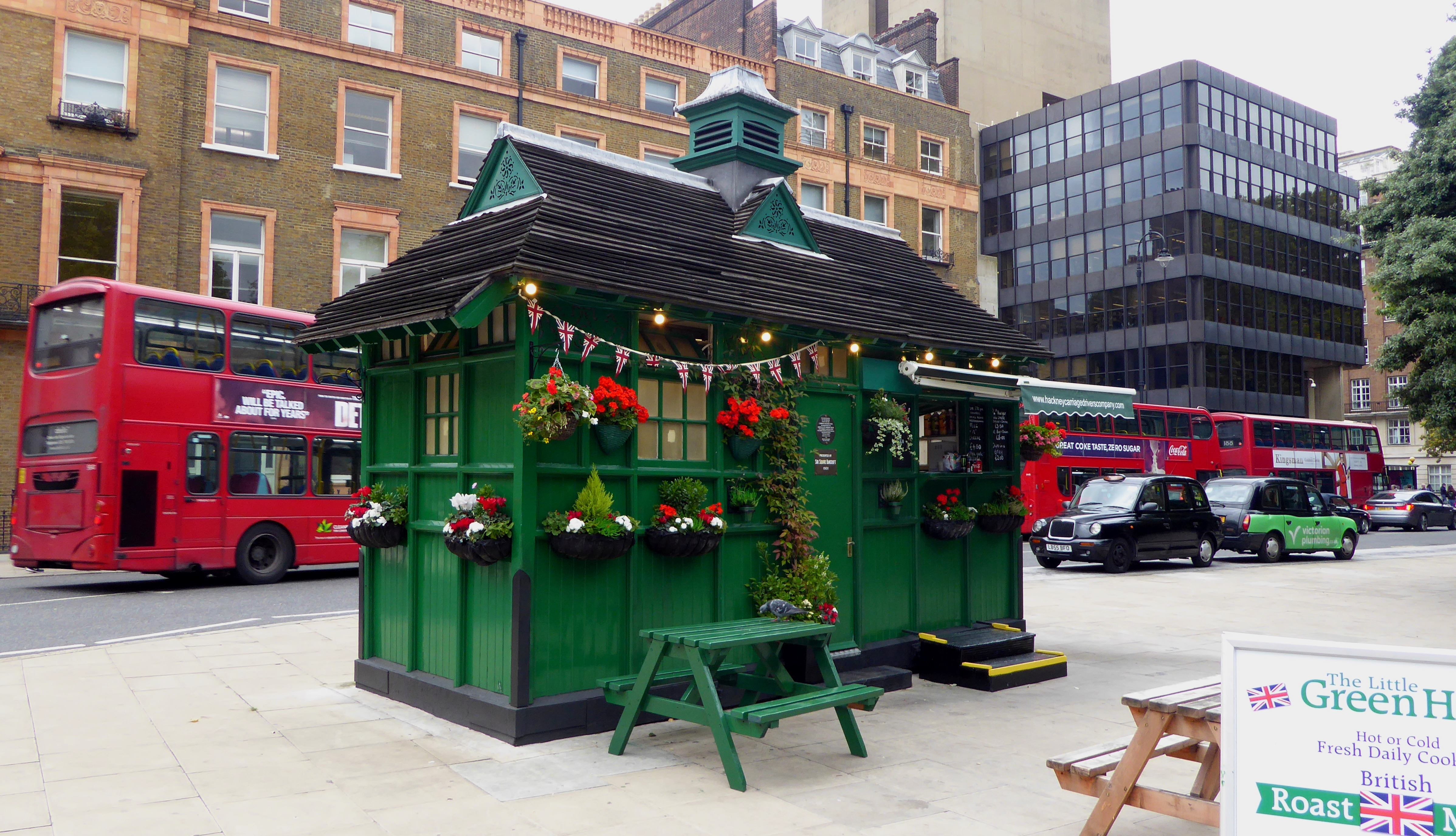 The green shelter belonging to the Cabmen's Shelter Fund in Russell Square, Bloomsbury London Borough of Camden.